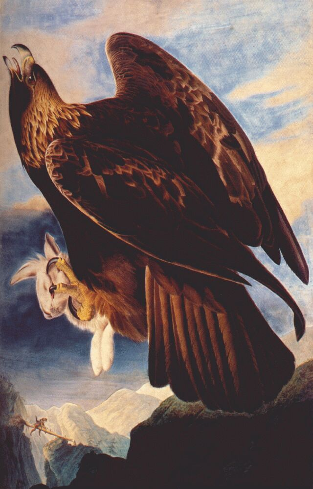 Painting of a golden eagle (Aquila chrysaetos) . Note: Audubon depicts himself at lower left!